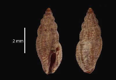 Agathotoma finalis Rolán & Fernandes, 1993; family Mangeliidae; Sao Tome and Principe